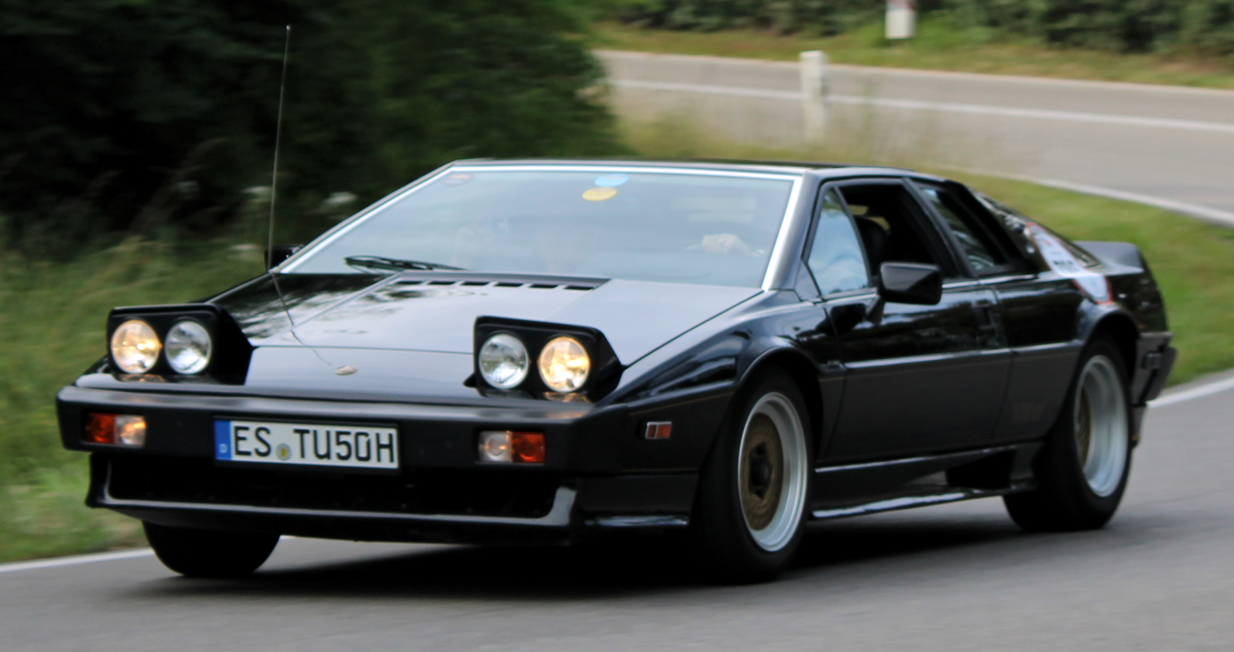 Lotus Esprit Turbo HCI (1986) at Solitude Revival 2019